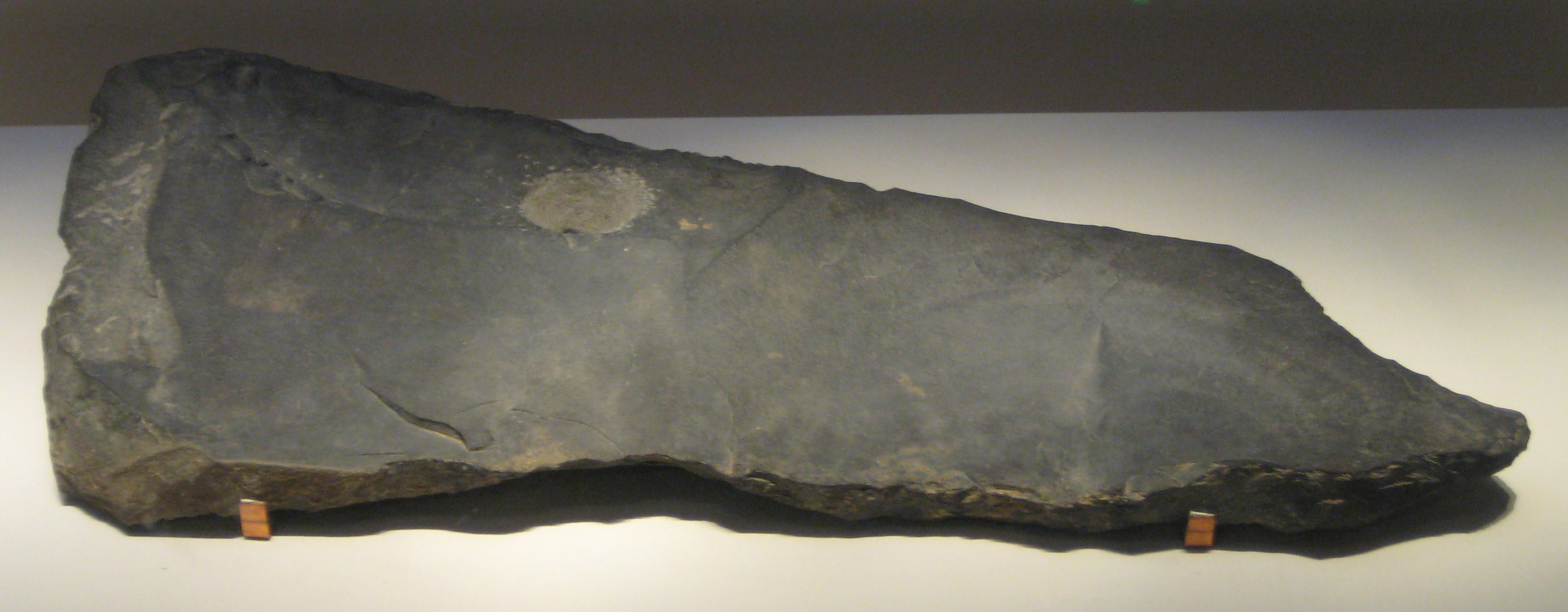 Stone qing (percussion instrument) from the Erlitou Culture. Unearthed at Dongxialeng, Xiaxian, Shanxi Province, 1974.